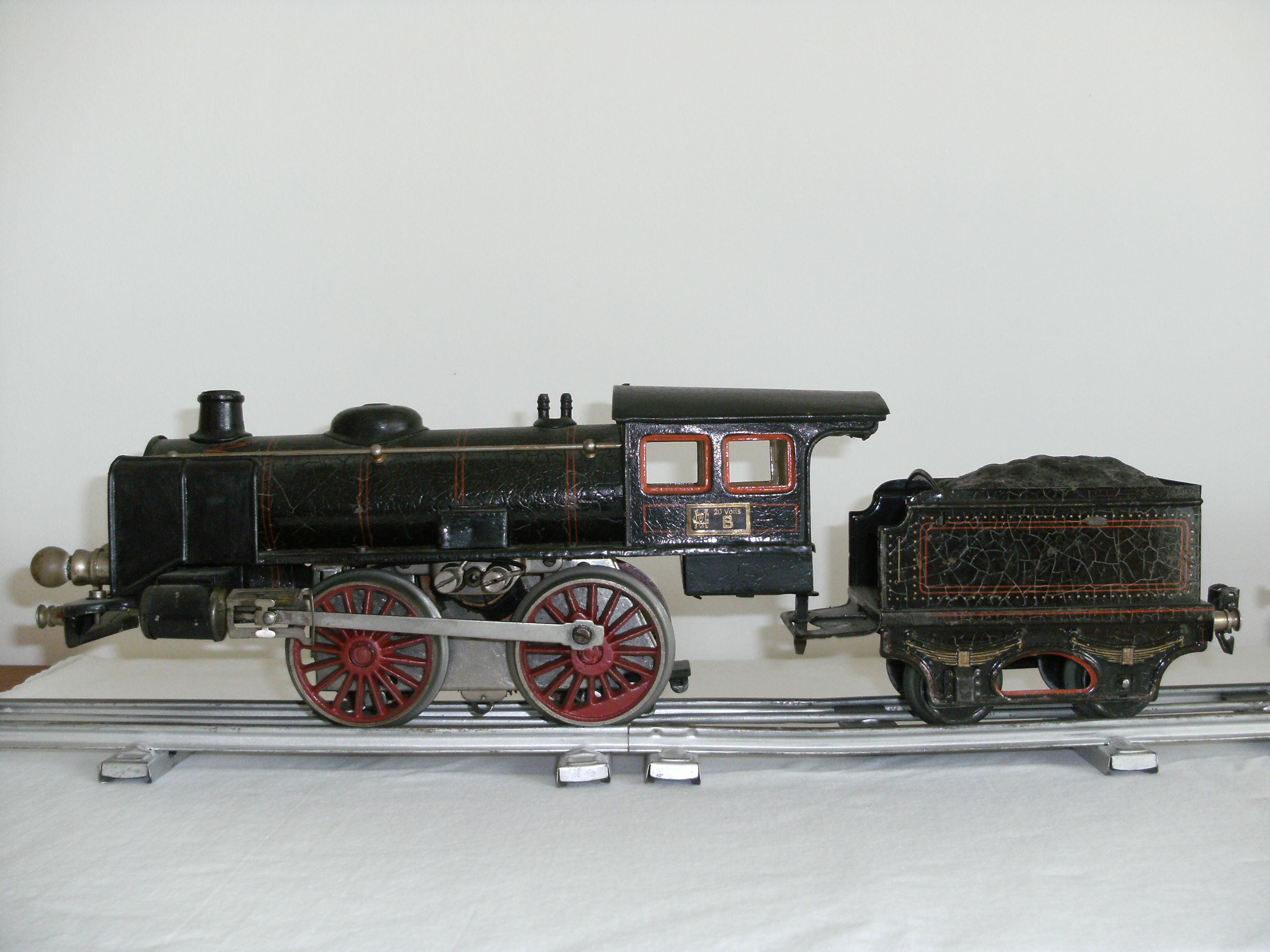 Märklin locomotive I scale (ca. 1935)